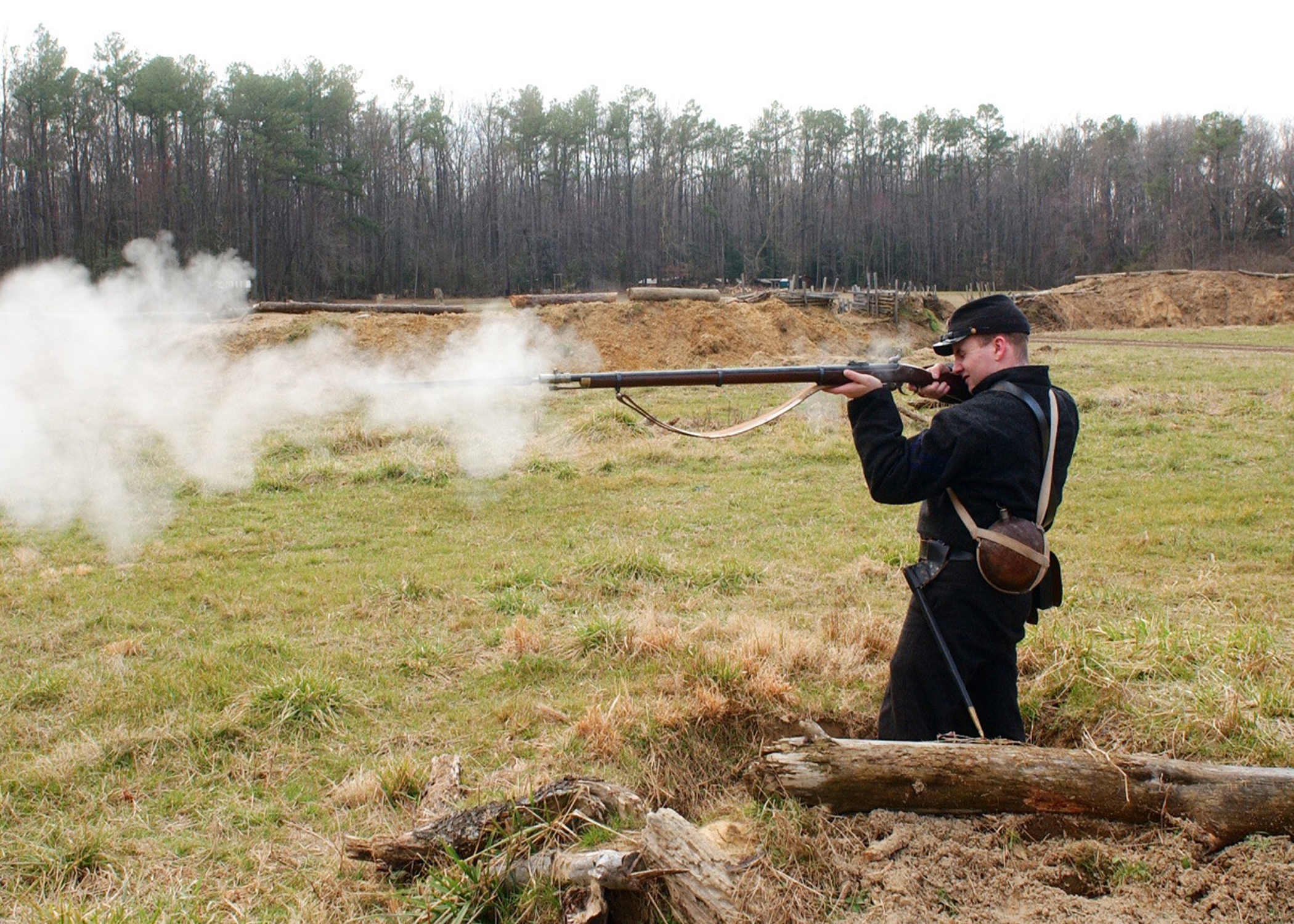 Michael Darcy's 1858 Enfield rifled musket used at the civil war. Electronics Technician 3rd Class Darby fires a ‘Michael Darcy's 1858 Enfield’ rifled musket at a civil war reenactment field. Petty Officer Darby is assigned to Combat Systems Department aboard the aircraft carrier USS Dwight D. Eisenhower's (CVN 69); he used this weapon and donned an authentic Civil War era costume while appearing in the movie "Gods and Generals." U.S. Navy photo by Photographer’s Mate Airman Kyle O'Neill. (RELEASED)